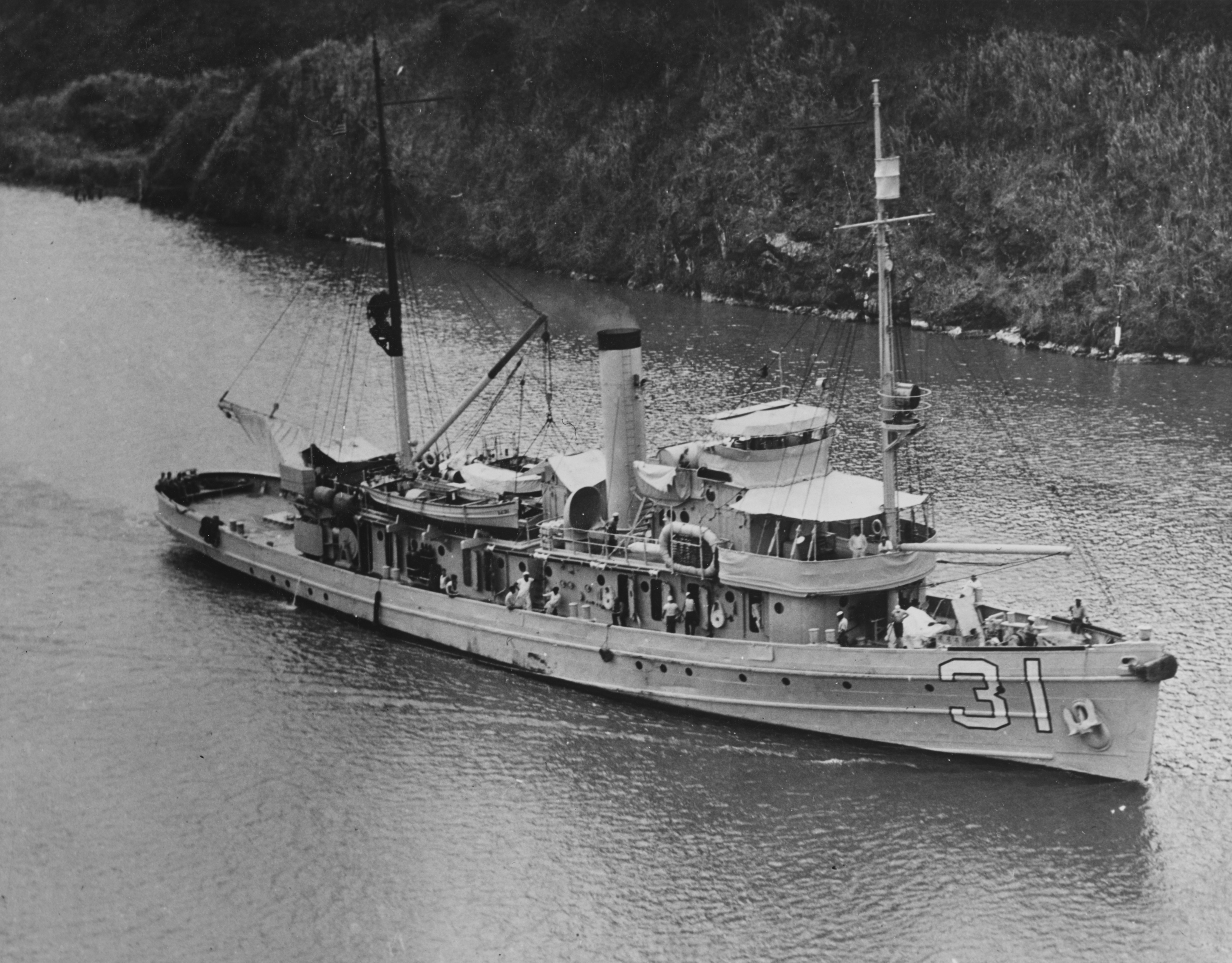 The U.S. Navy minesweeper USS Tern (AM-31) passing through the Panama Canal in the 1930s. Note awnings and other shipboard details.